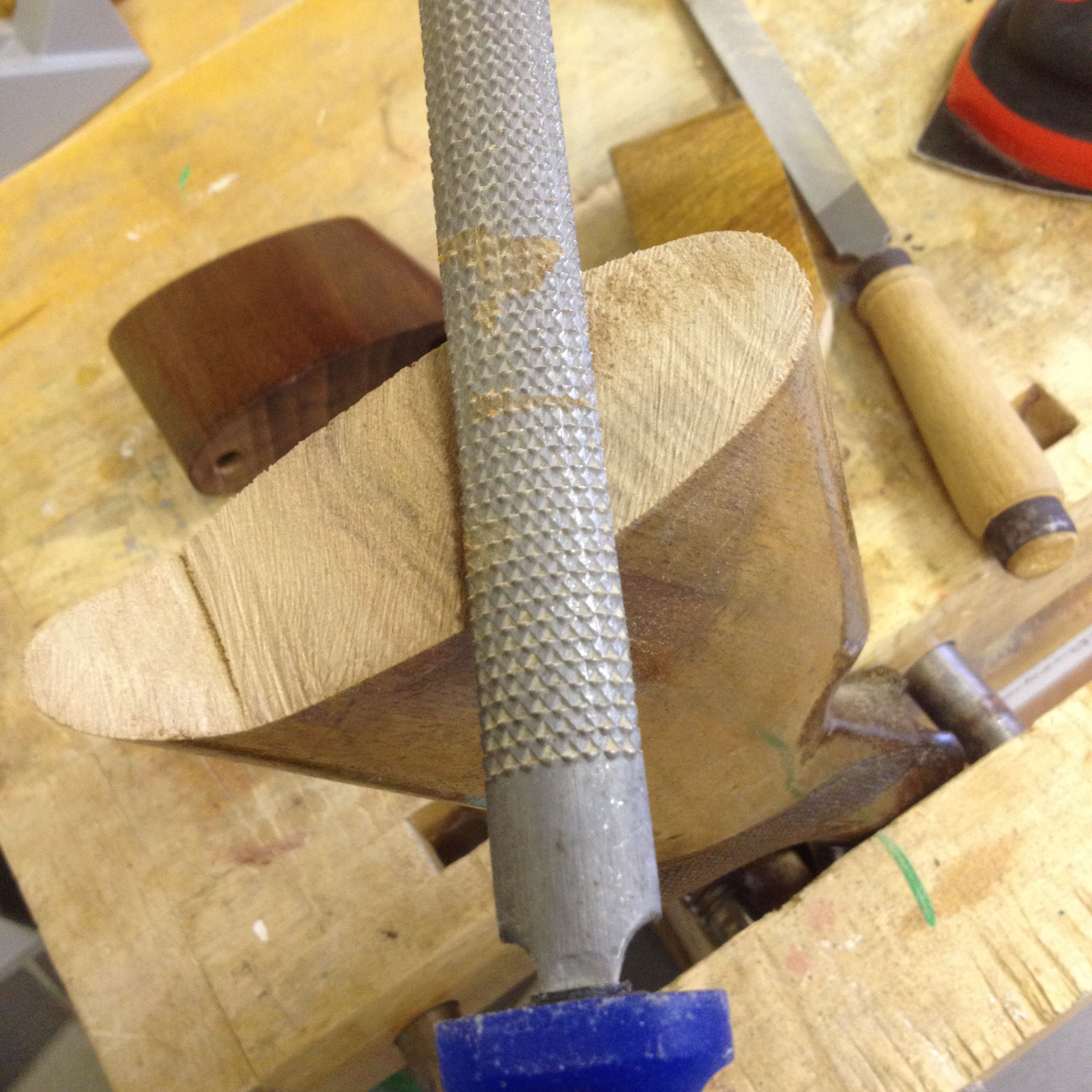 Gunsmithwork on a riflestock. Rasping out a bottom tail.